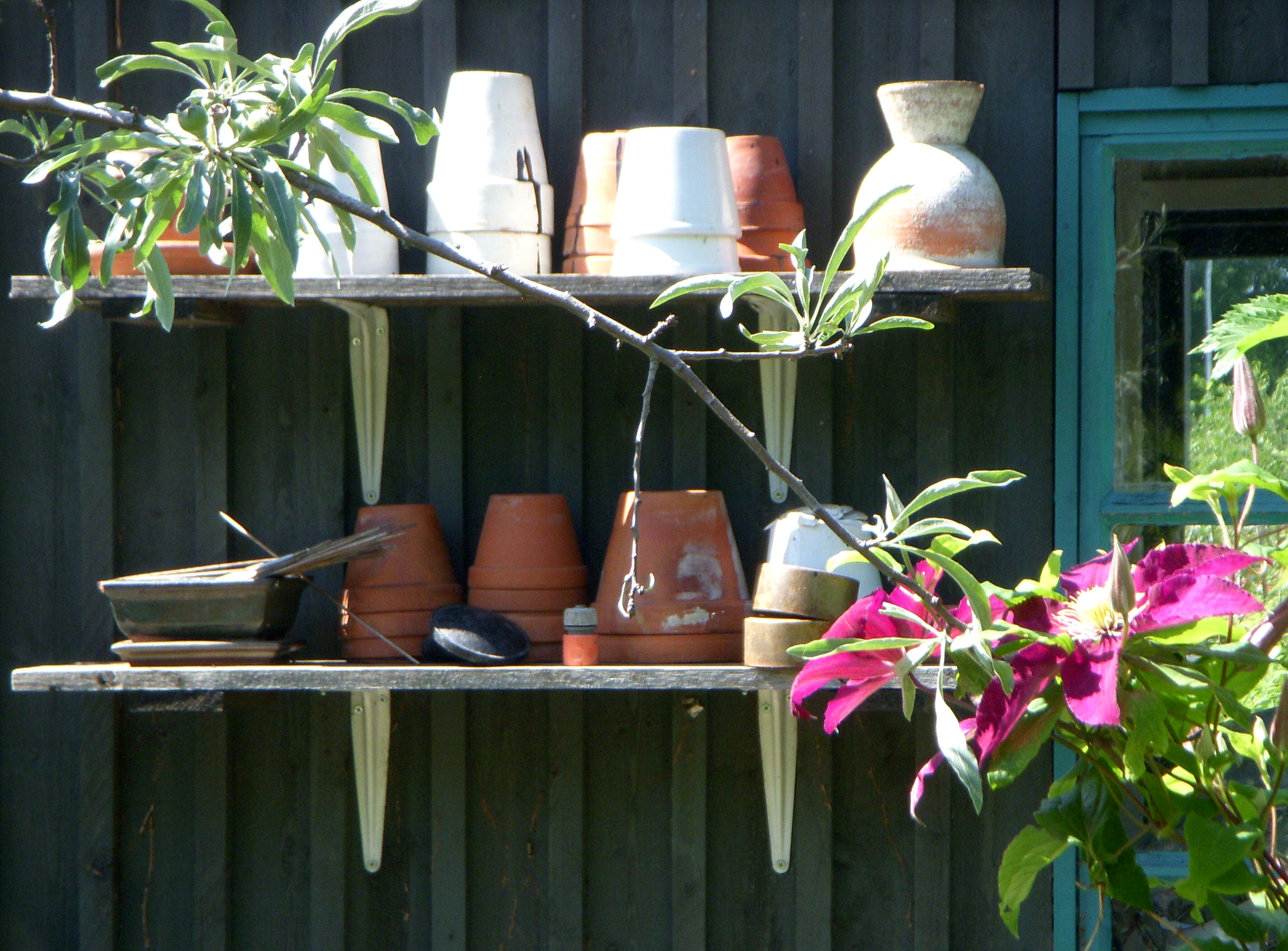 Detail from the allotment garden Söderbrunn ("the Southern water well") situated in Norra Djurgården, Stockholm, Sweden